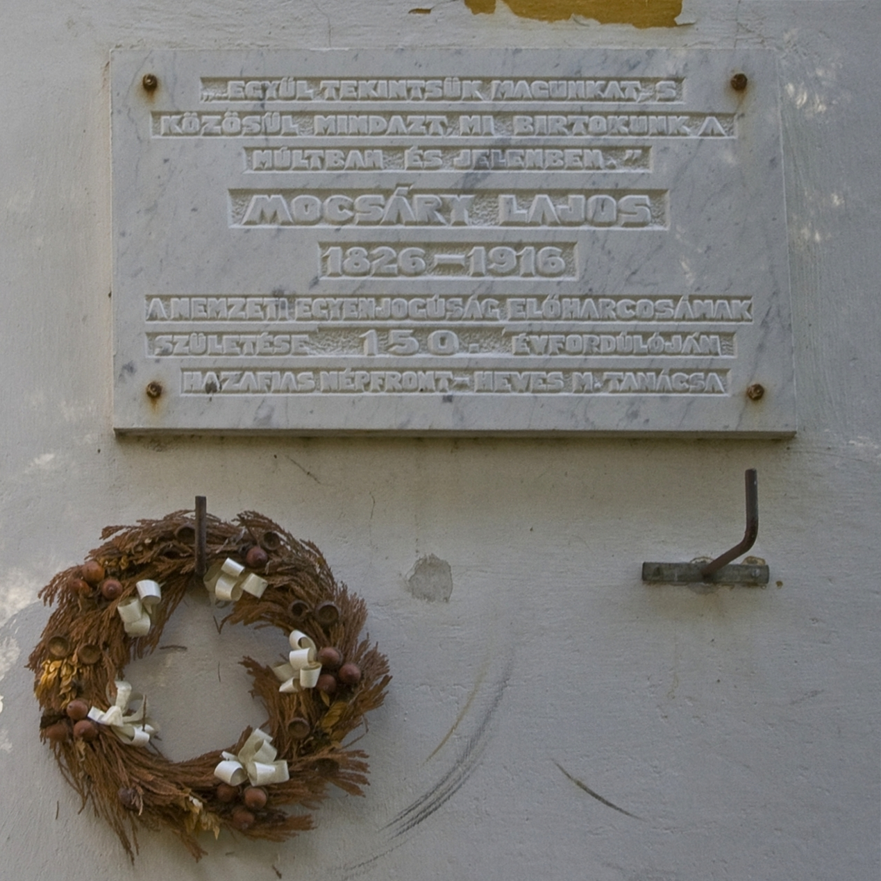 Plaque of Hungarian politician Lajos Mocsáry, Andornaktálya